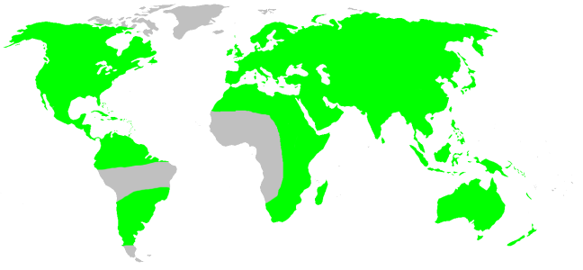 Clubionidae habitat distribution, drawn after Platnick: World Spider Catalog 7.0. This is not at all a precise rendering of the distribution! If you have better information, please replace this map, or send me the info, and i will redraw it.